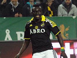 AIK player